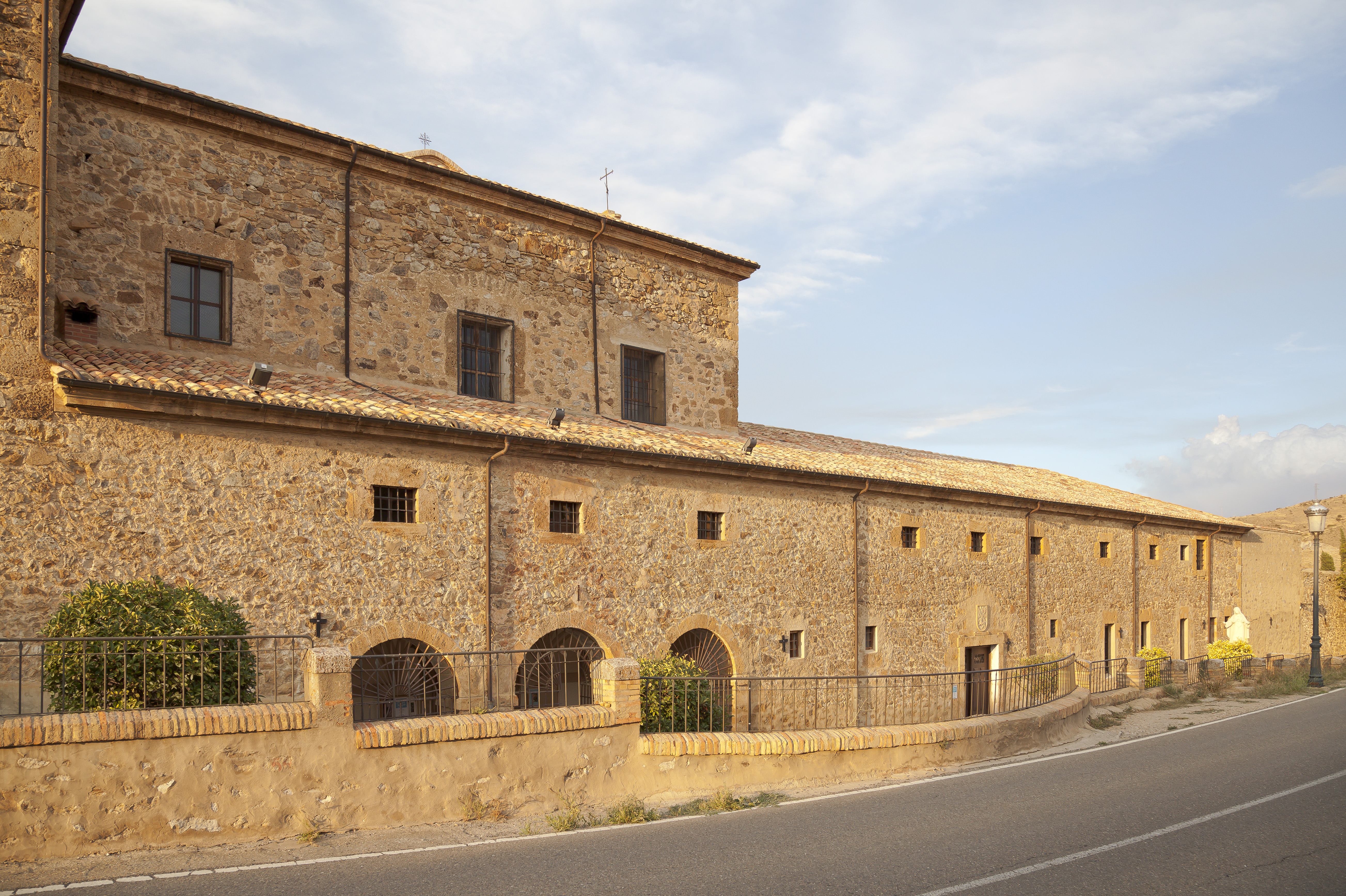 Convento de la Concepción, Ágreda, Spain